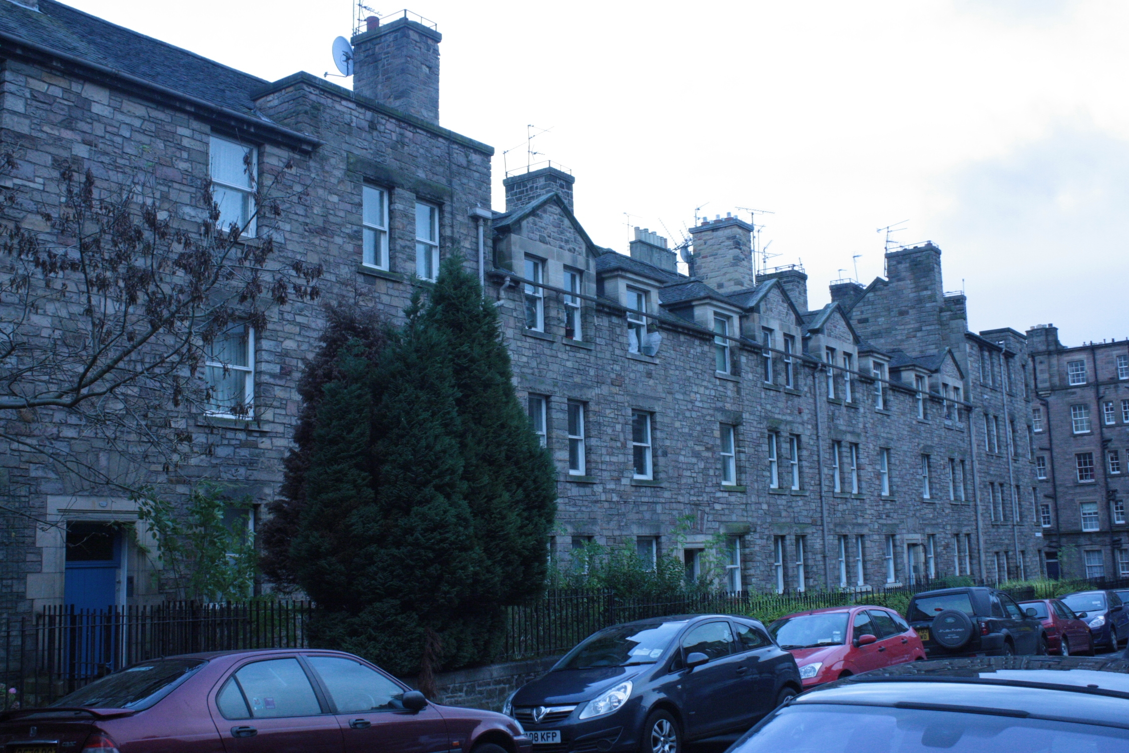 Gifford Park Edinburgh ... Council Housing by Ebenezer James MacRae